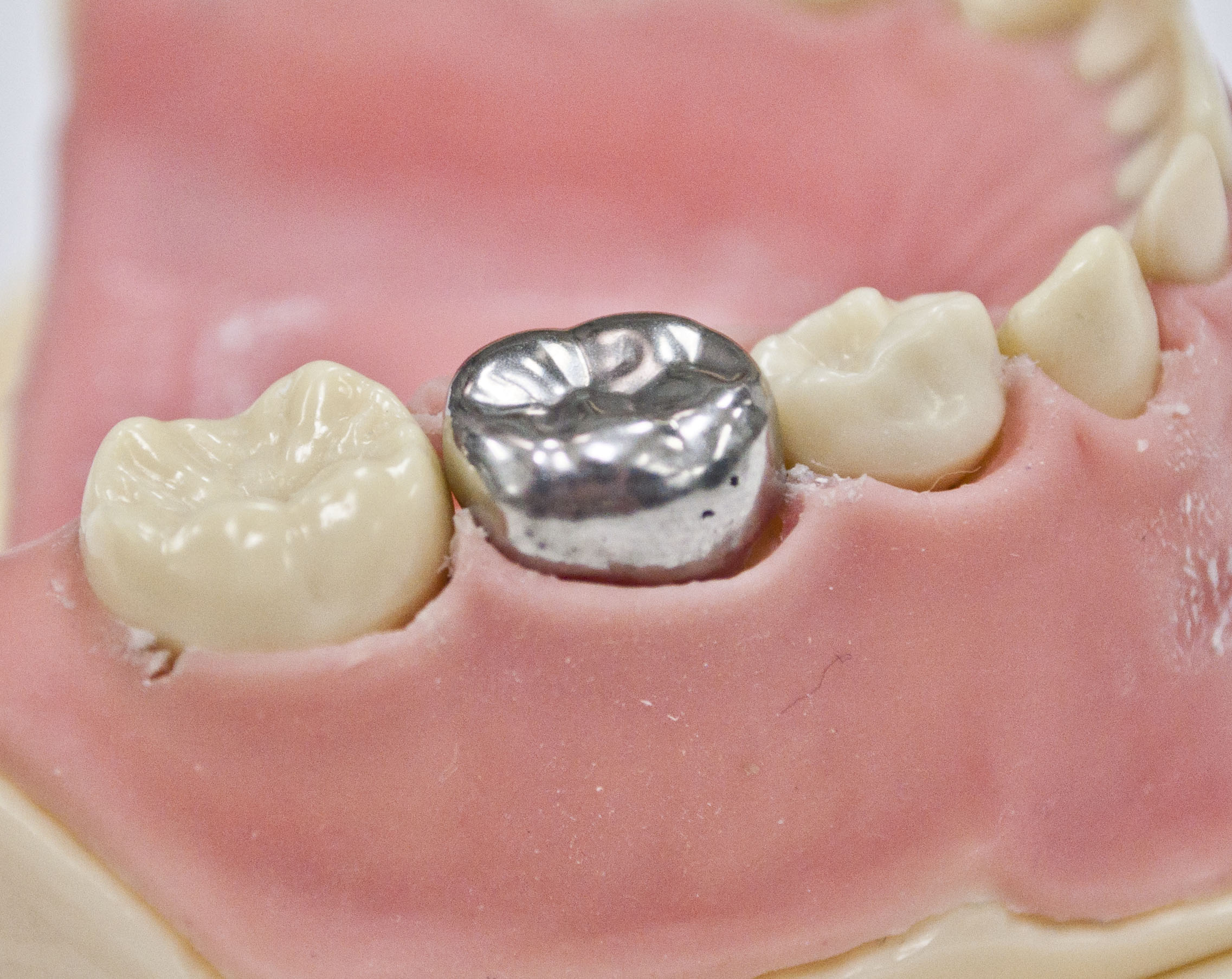 Model of Stainless Steel Crown in the deciduous dentition